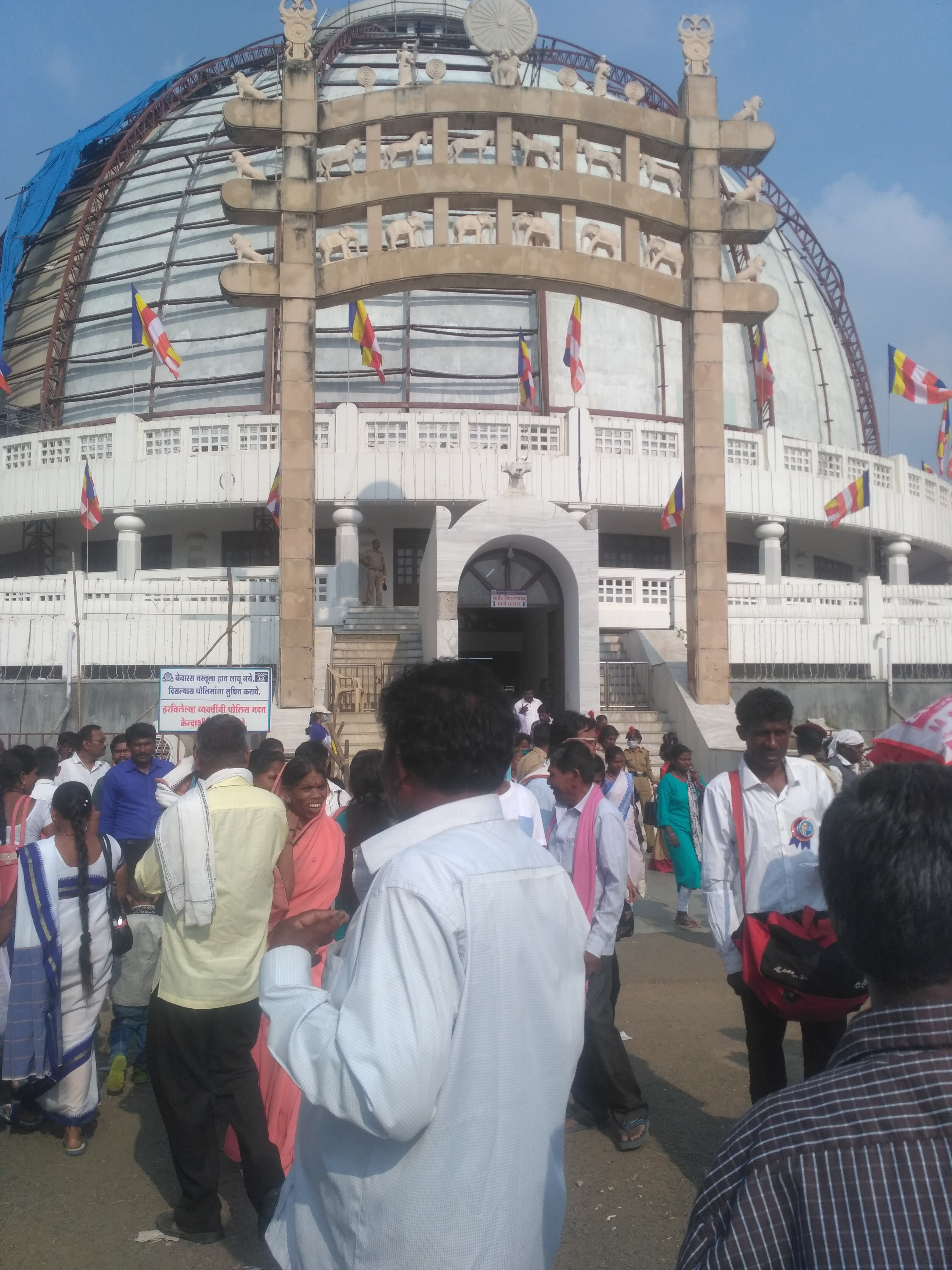 Buddhists celebrating Dhammachakra Pravantan Din celebration at Deekshabhoomi, Nagpur, Maharashtra